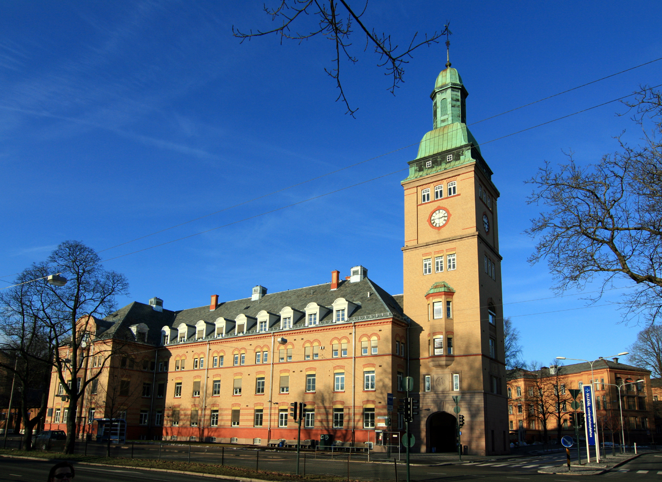 Ullevål University Hospital, Oslo.